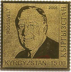 Stamp of Kyrgyzstan